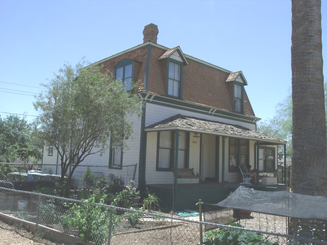 The Judge Charles A, Tweed House, built in 1880 and located at 1611 W. Filmore St. in Phoenix, Az. The house is listed as historic by the Phoenix Historic Property Register.